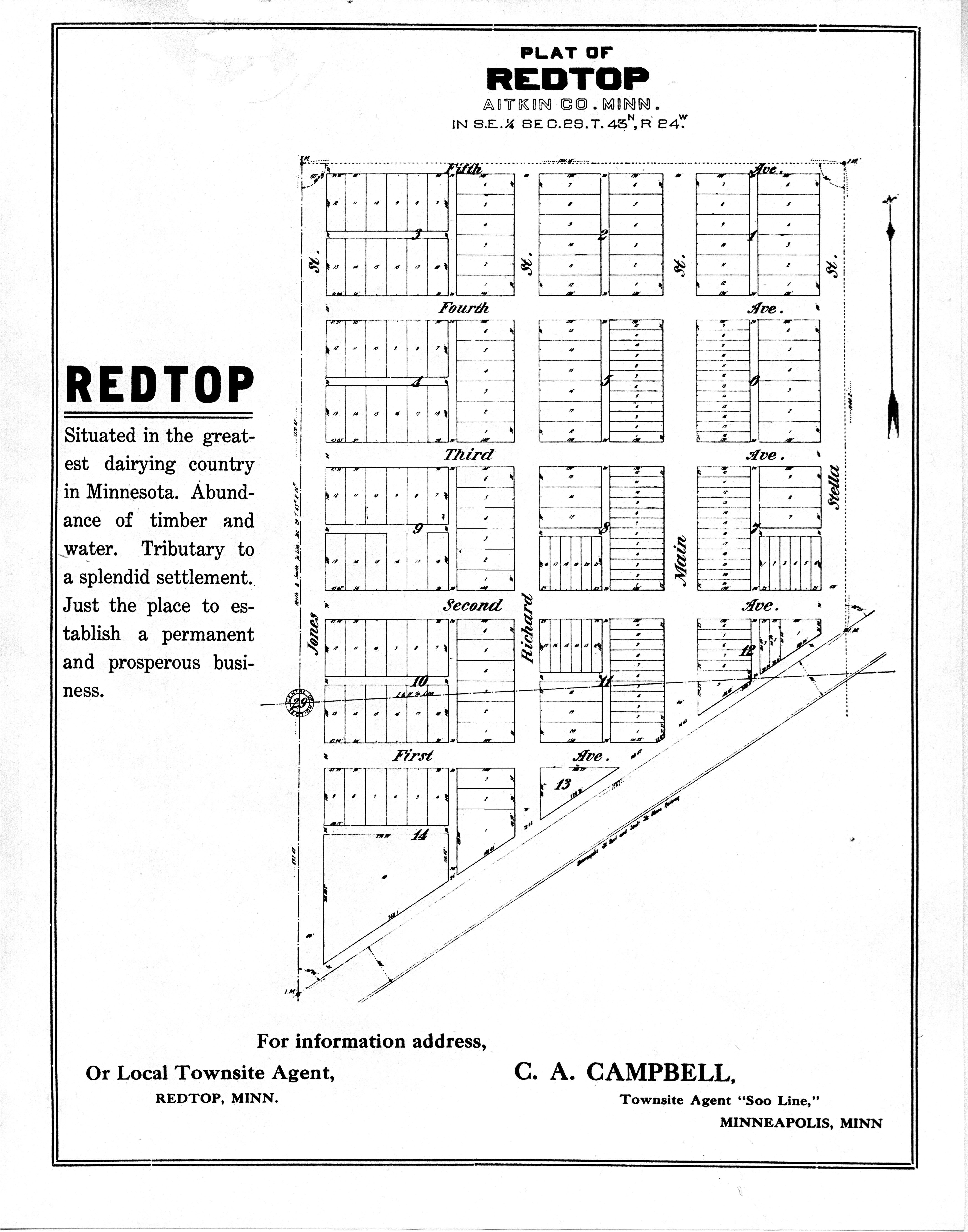 The original plat and layout for Red Top as it was intended by the Soo Line Railroad.